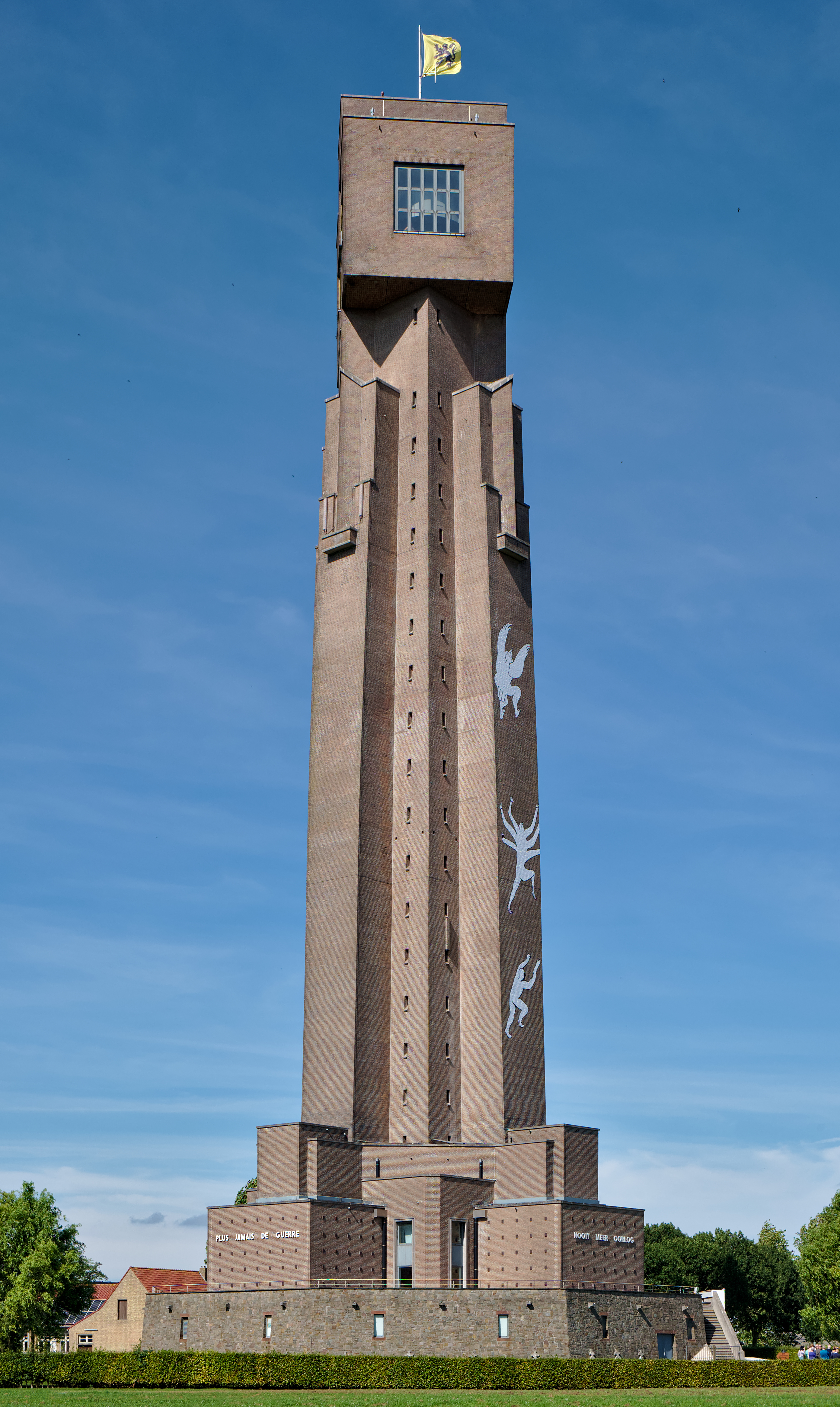 The Yser Tower in Diksmuide, Belgium (SE side) This photo of immovable heritage has been taken in the Flemish Region